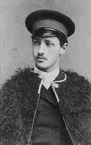 Russian writer Ivan Bunin in 1891